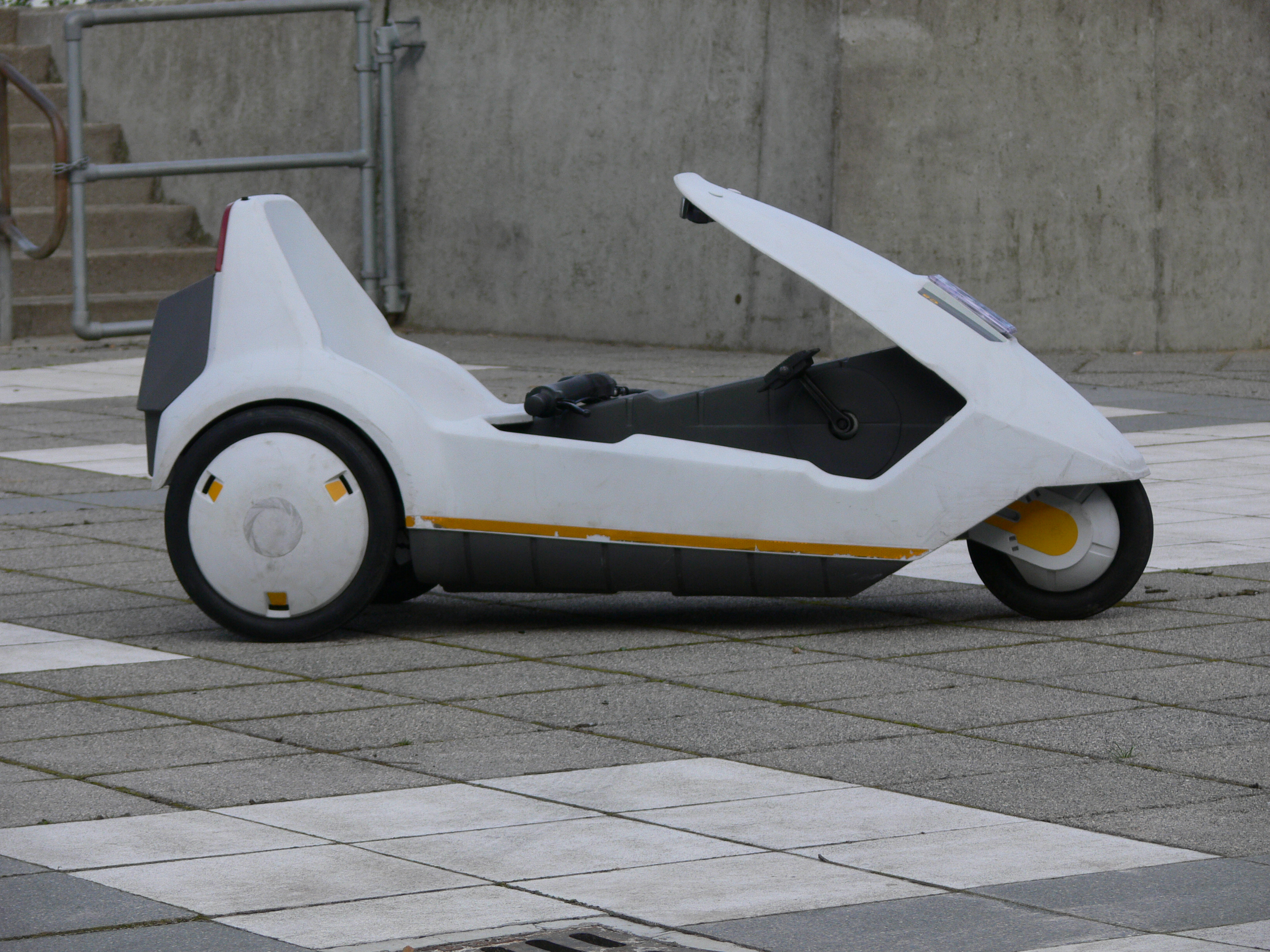 Pictures of my C5 taken on a spin around Galleons Lock.